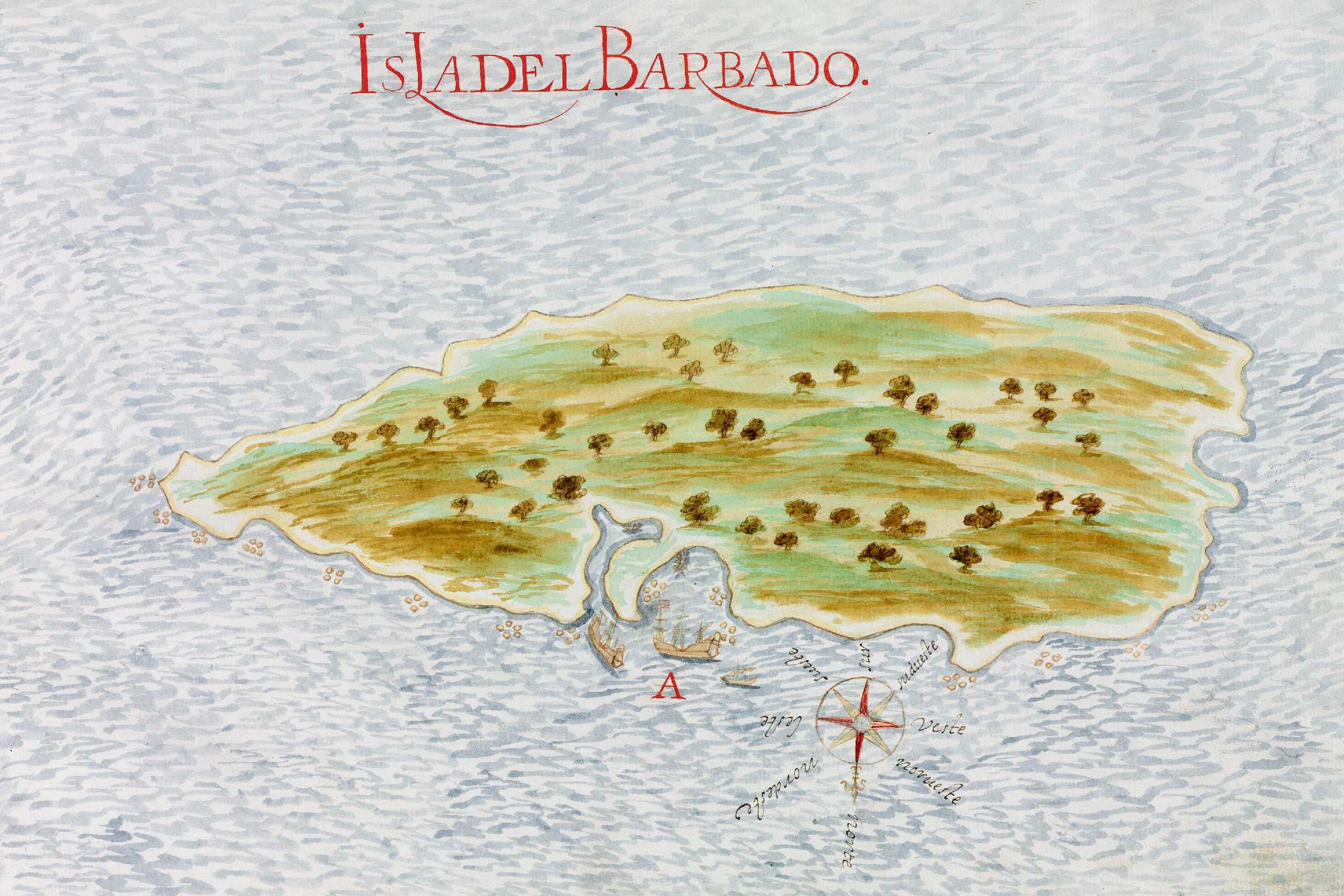 Spanish 1632 map of the island of Barbados. Page 11 of the Descripciones geográphicas e hydrográphicas de muchas tierras y mares del Norte y Sur en las Indias, en especial del descubrimiento del Reino de la California (Geographic and hydrographic descriptions of many northern and southern lands and seas in the Indies, specifically the discovery of the kingdom of California), written by captain Nicolás de Cardona after his expedition of 1614.